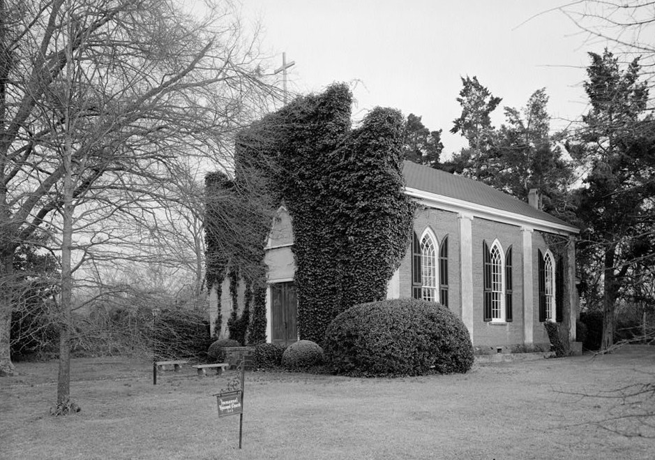 Immanuel Episcopal Church, Second Street, La Grange (Fayette County, Tennessee) Object location35° 02′ 38″ N, 89° 14′ 31″ W